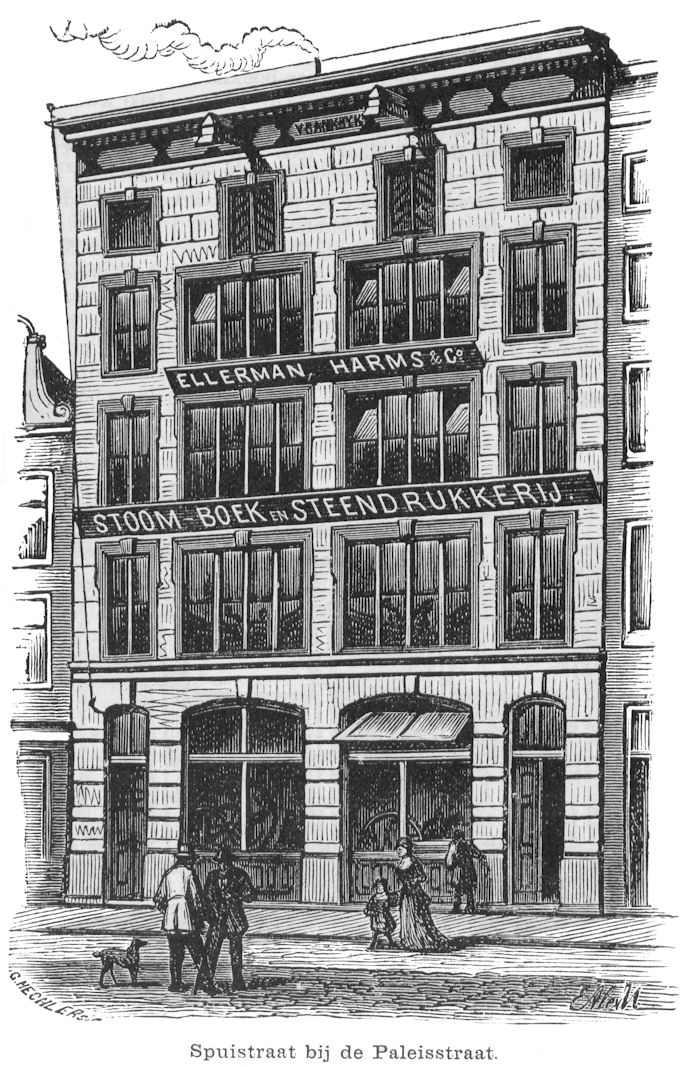 The building Vrankrijk is a squat since 1982. It was build in 1875 as a carpenters workshop, later it was used by a newspaper-publisher. The building was abandoned in 1975 and used for speculation. It was squatted in 1982. Illustration by Dutch artist Eduard Alexander (Alex) Hilverdink (1846 - 1891) before 1882.